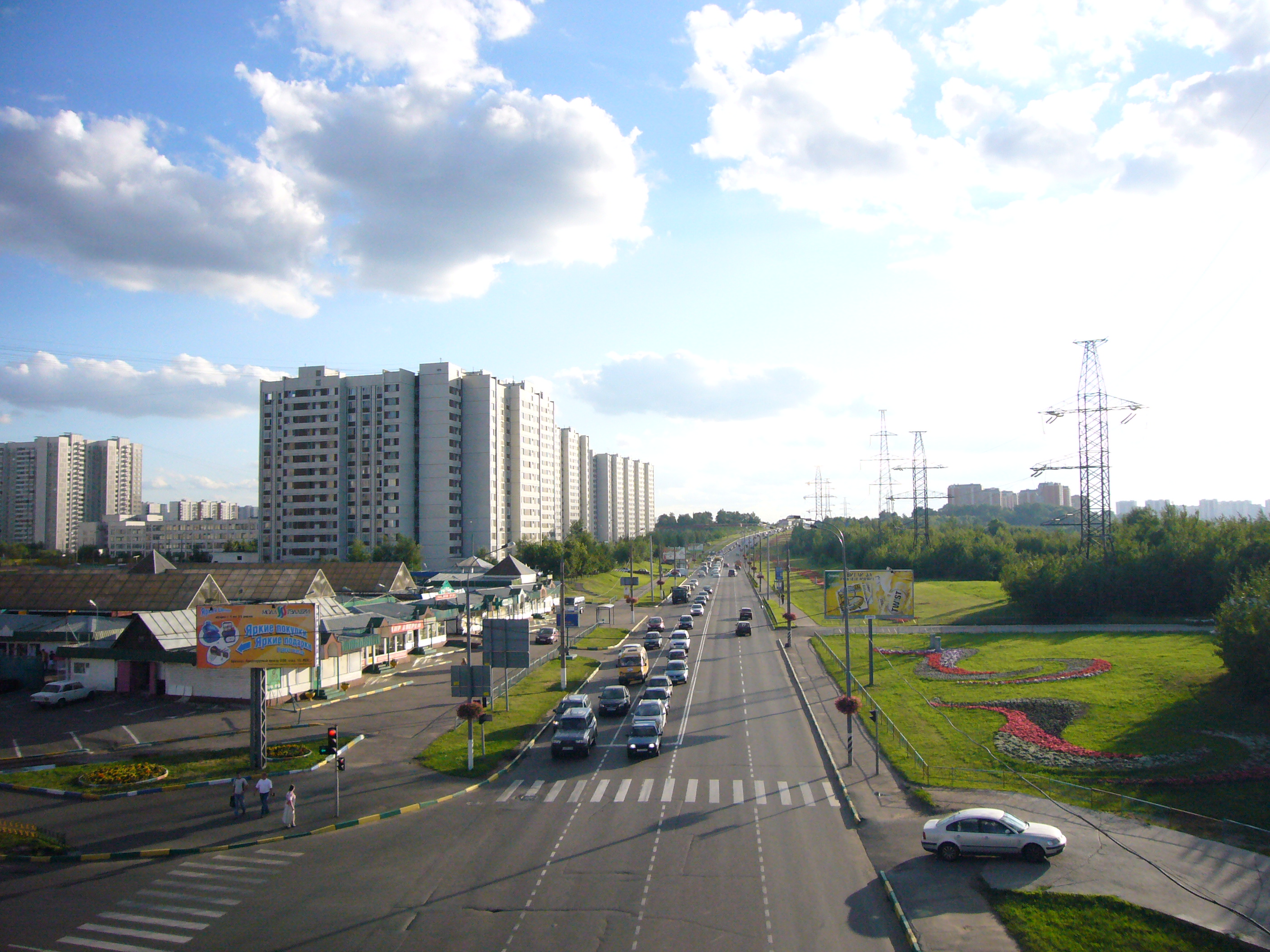 View of Borisovskiye Prudy Street from Brateyevsky Bridge, Moscow, Russia